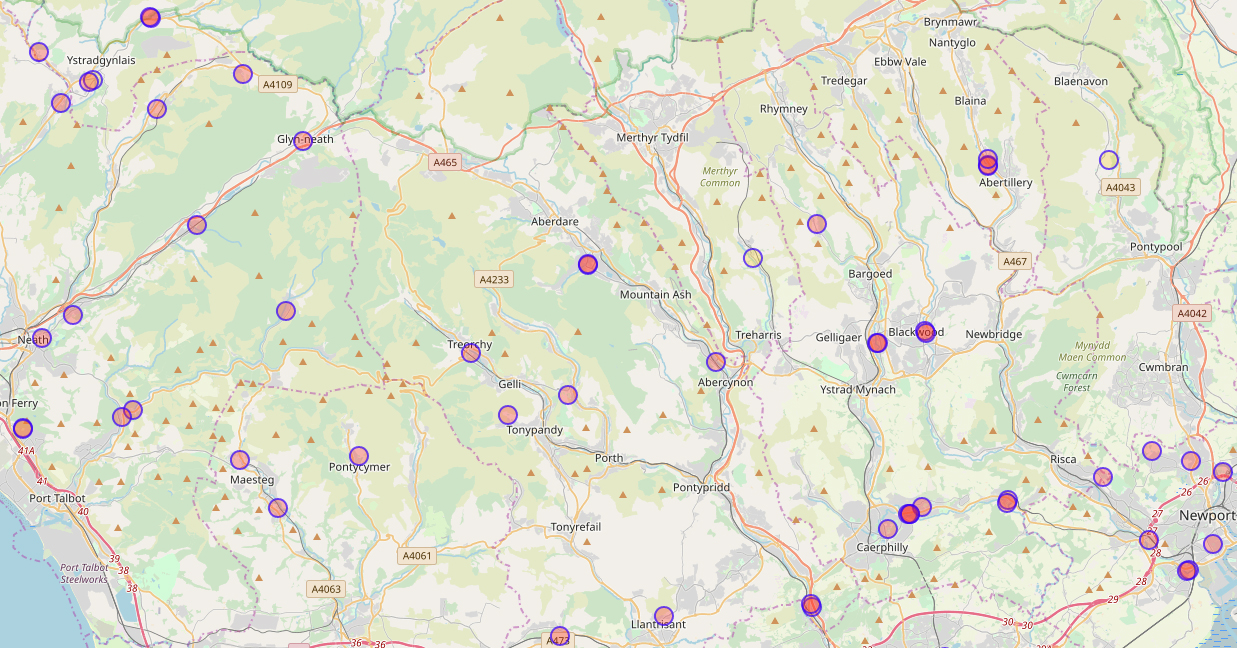 A map of rugby fields in the South Wales valleys This map may be incomplete, and may contain errors. Don't rely solely on it for navigation.